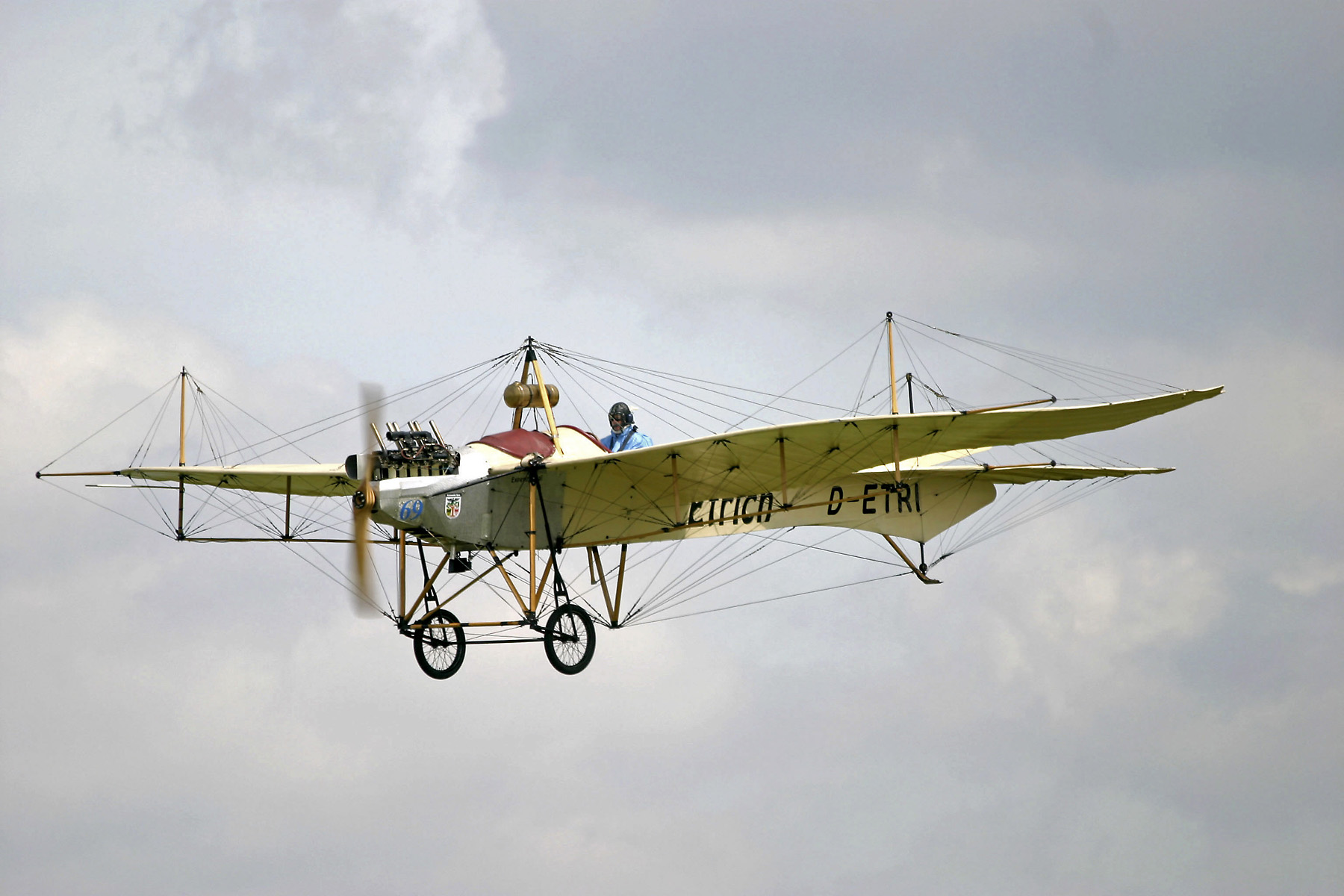 Etrich Taube in flight at the ILA 2004